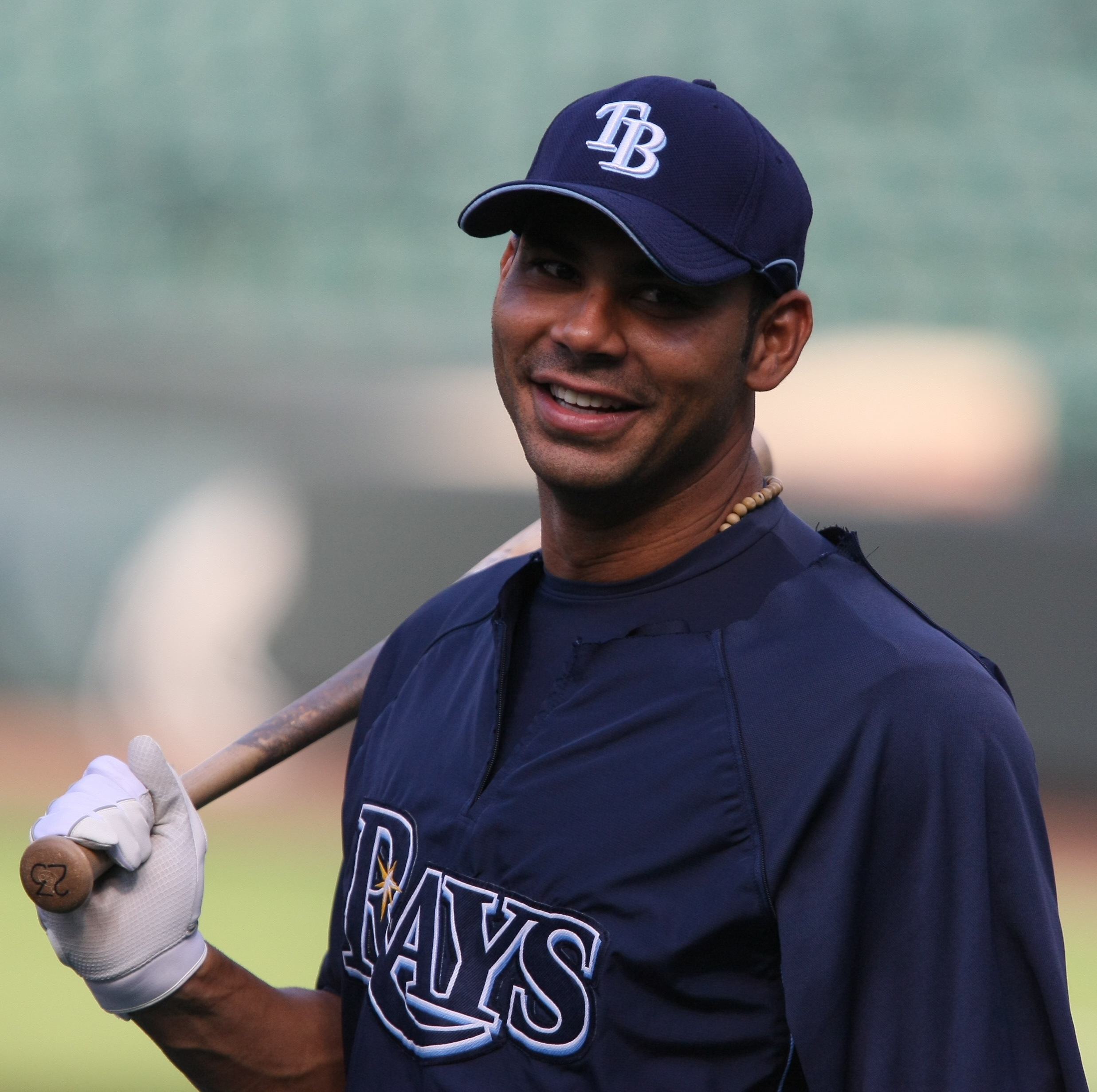 Carlos Peña in 2009.